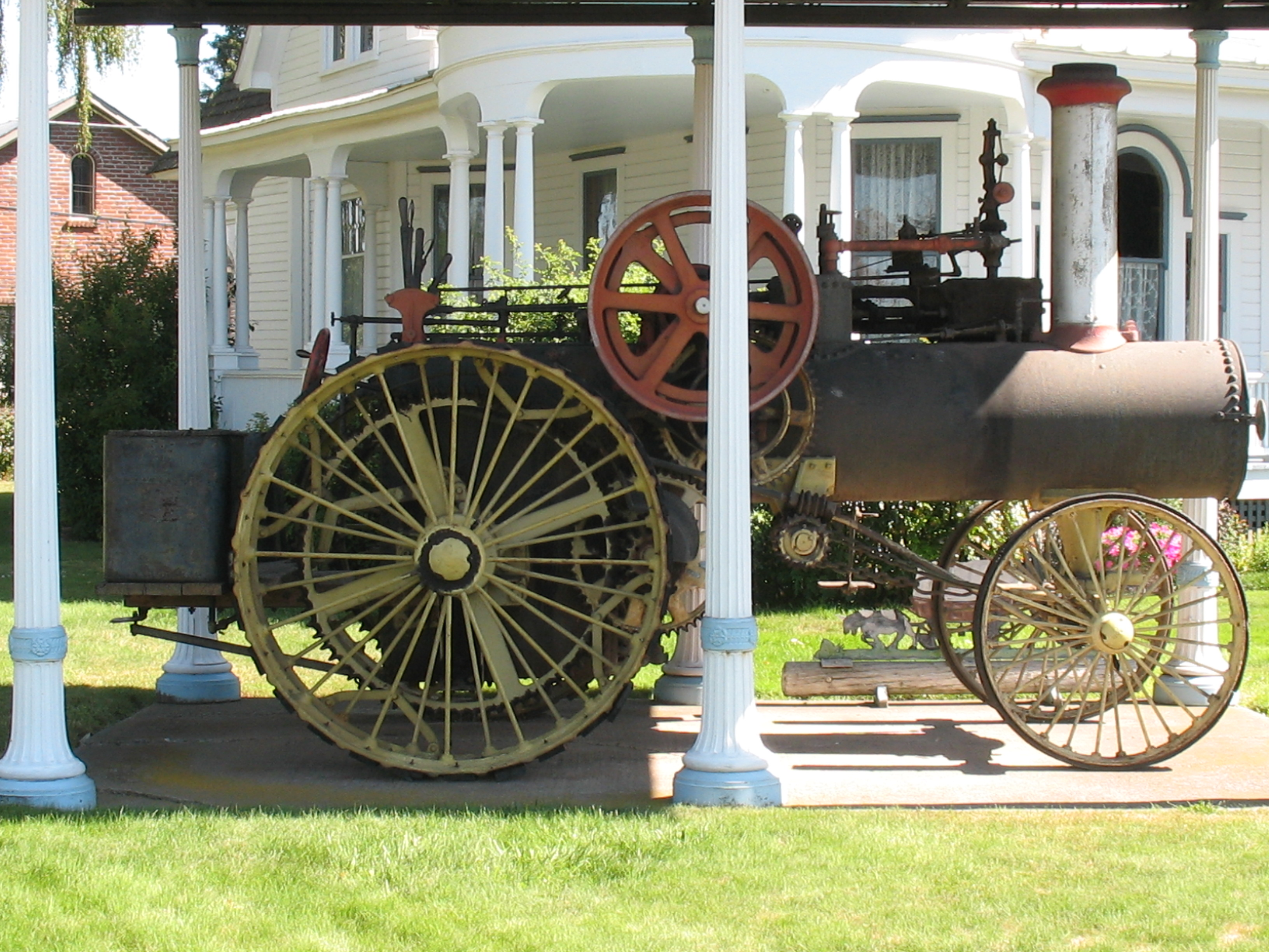 steam tractor in front of the Museum in Goldendale, Washington